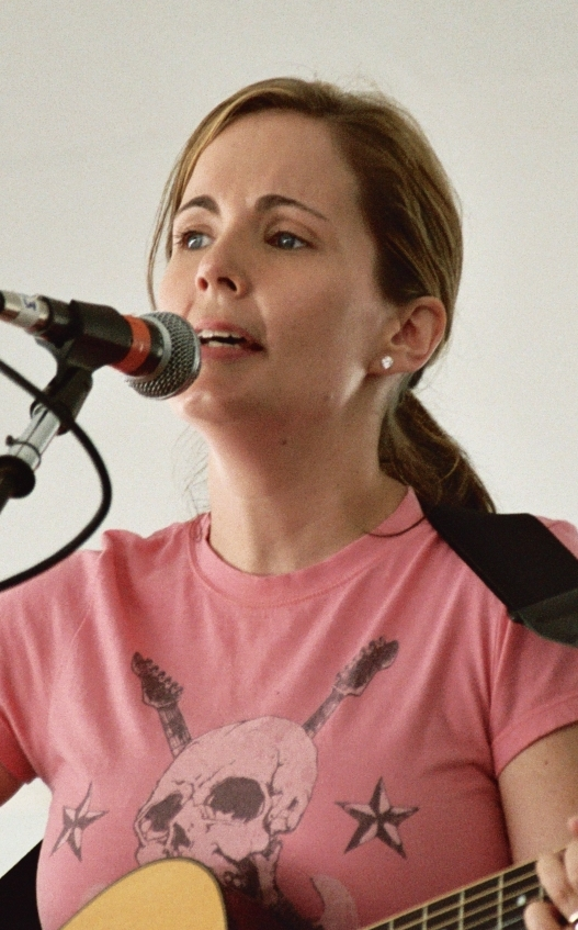 Lori McKenna performs solo on the Custom House Stage of New Bedford Summerfest 2006.